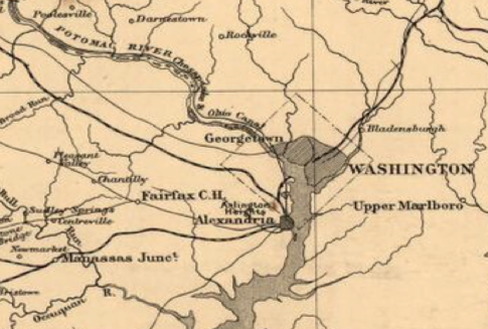 The map shows the area surrounding Fairfax, Virginia, during the American Civil War. The 18th Pennsylvania Cavalry patrolled this area at the beginning of 1863.